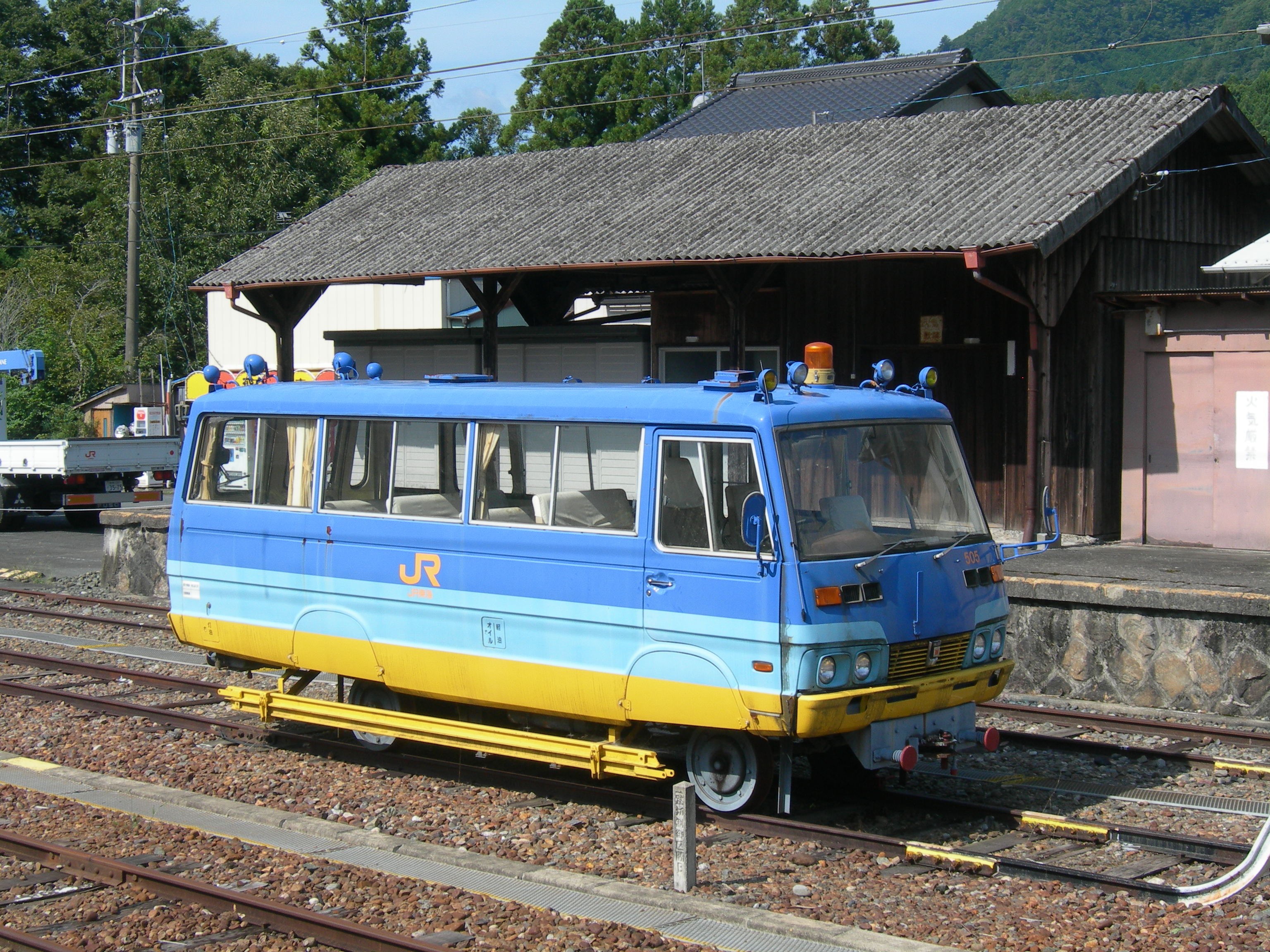 Japanese rail car based on mini-van